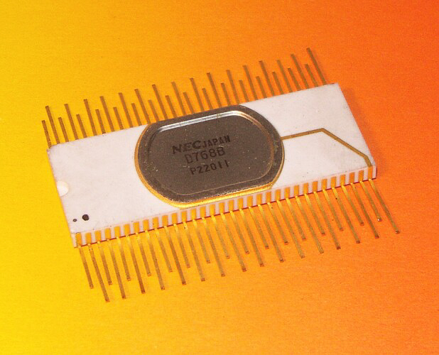 NEC D768B